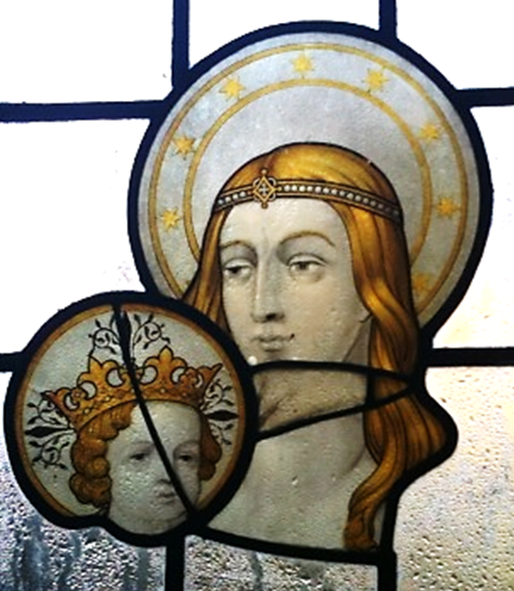 Part of a window in St Ethelbert's parish church, Alby, Norfolk